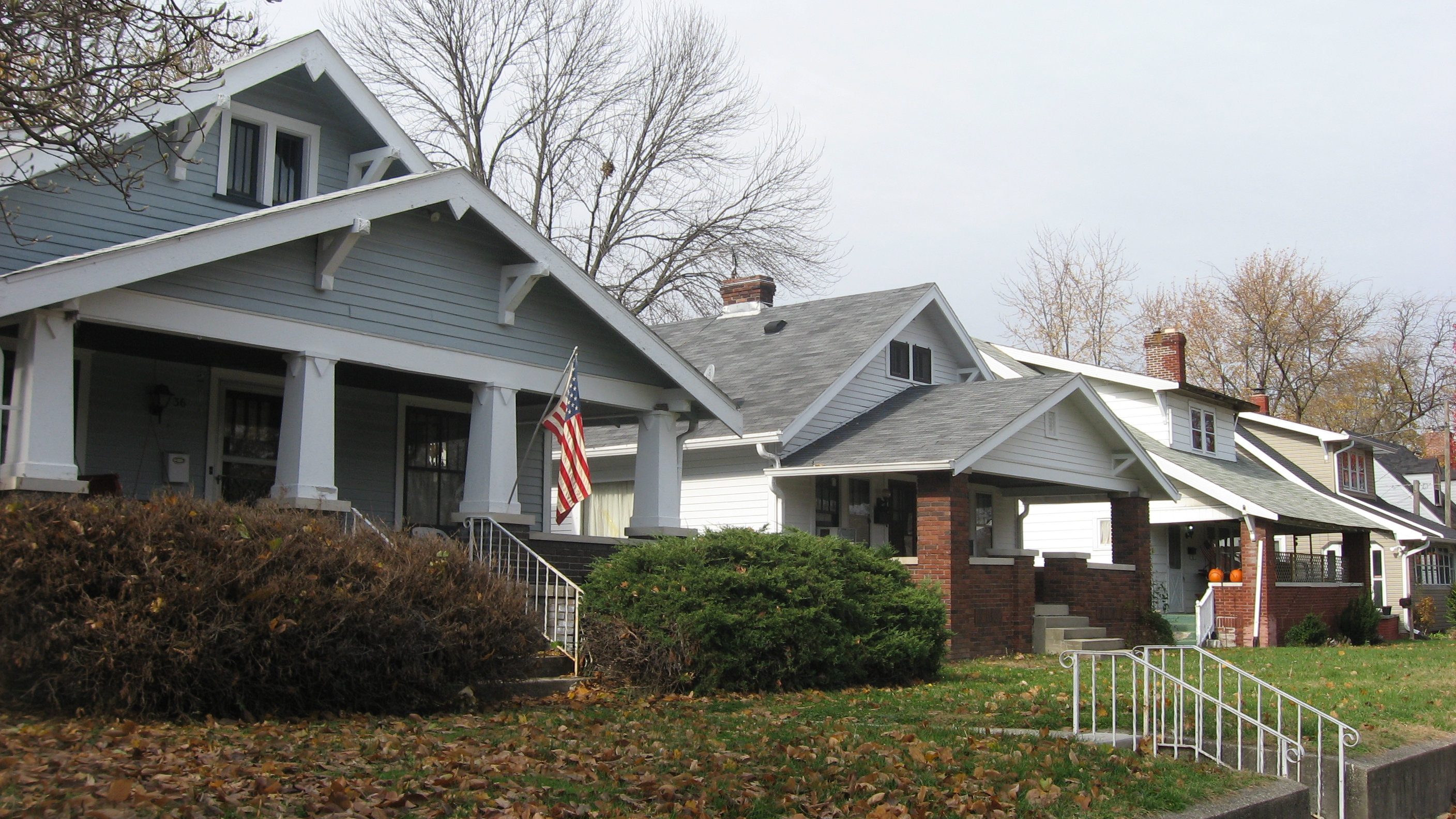 Houses on the western side of the first block of N. Webster Avenue in Indianapolis, Indiana, United States. This block is part of the Irvington Terrace Historic District, a historic district that is listed on the National Register of Historic Places.